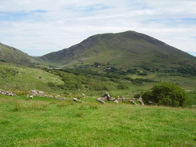 Ruin, Derrynablaha Ruin beside some pretty reasonable grassland. Knocklomena (641m) in the distance.